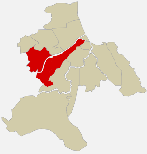 There was tate village in 1940. Now it is part of Hachinohe city.